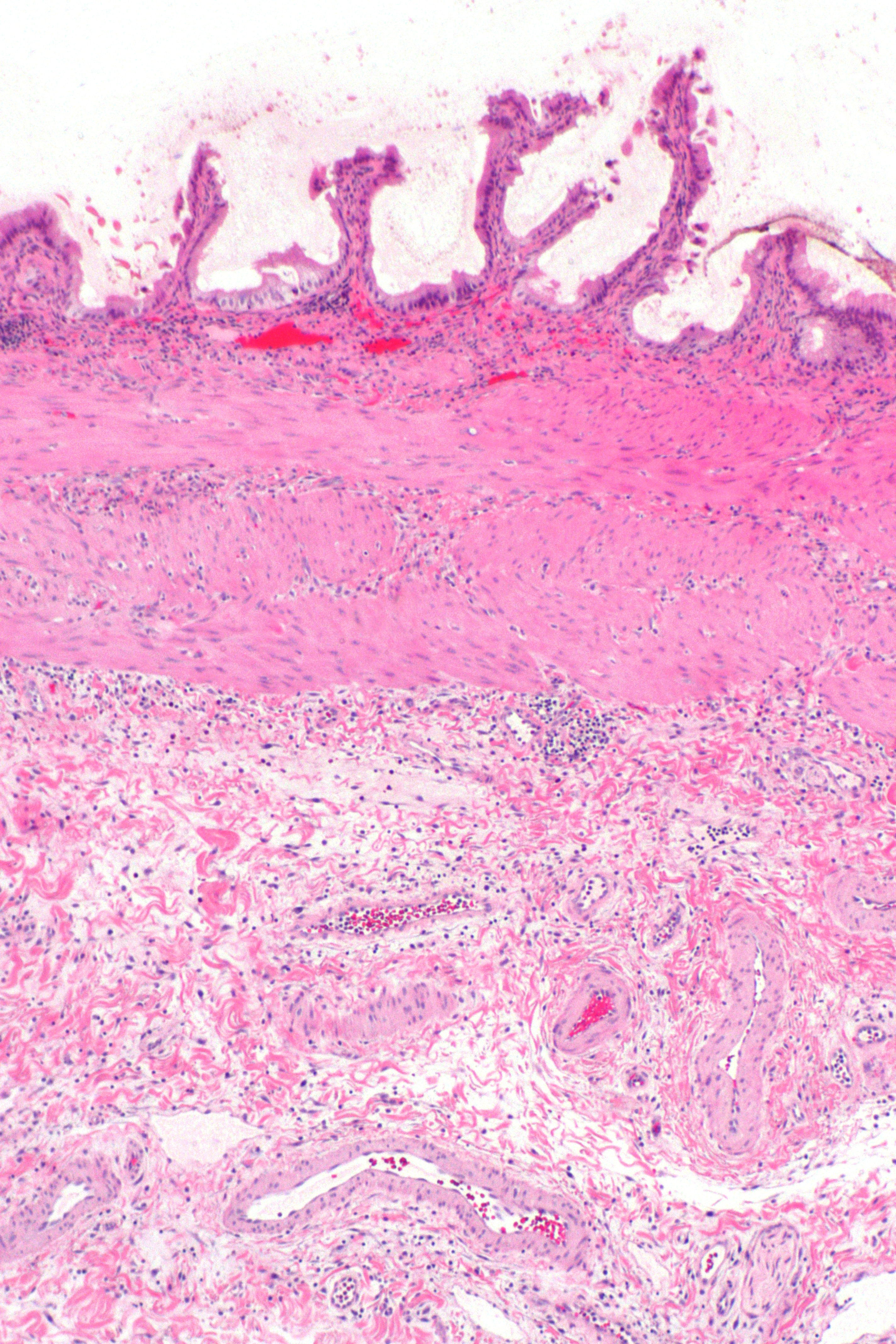 Micrograph of acute cholecystitis. H&E stain. Related images AC - very low mag. AC - low mag. AC - intermed. mag. AC - intermed. mag. AC - intermed. mag.